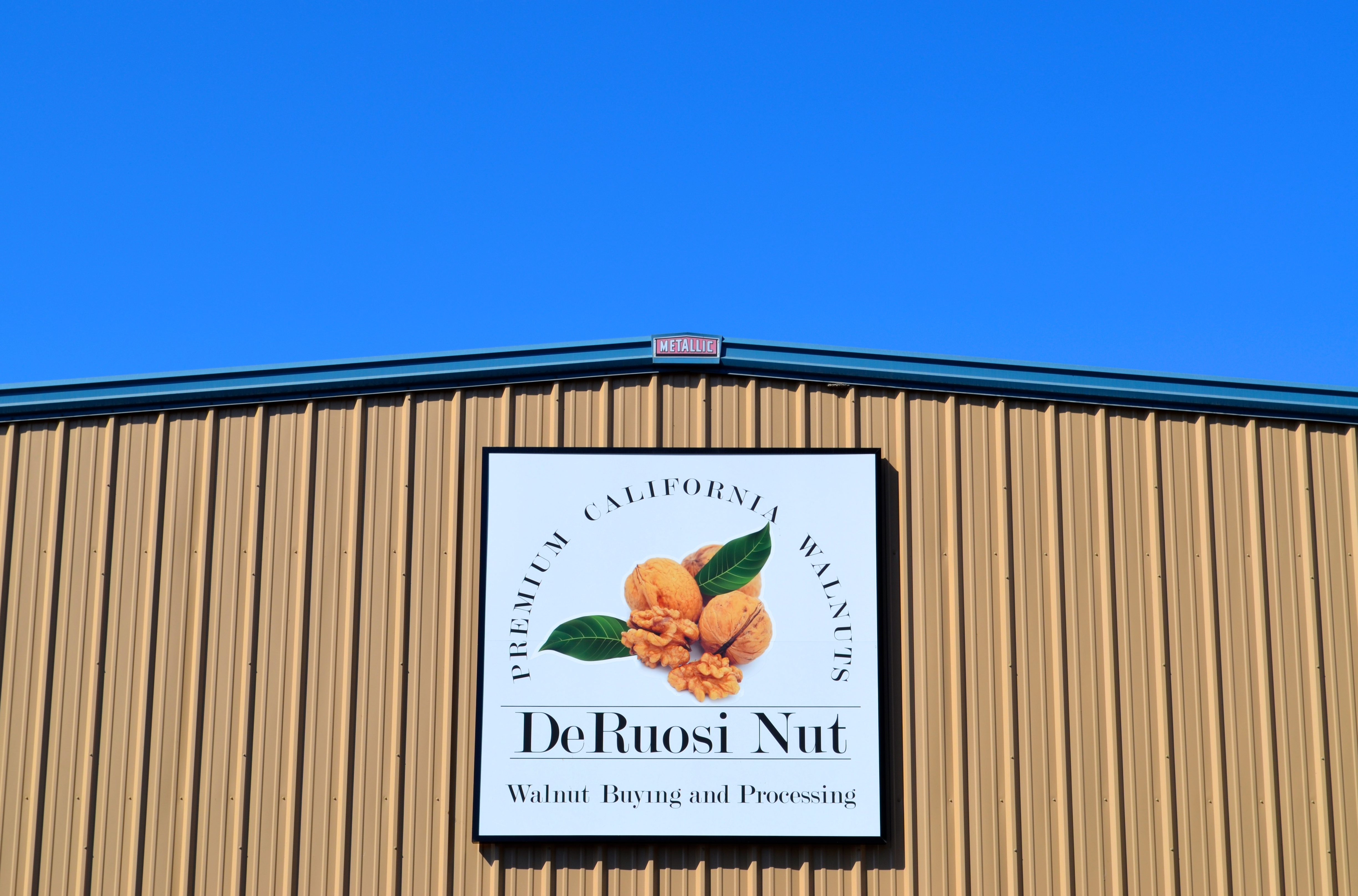 DeRuosi Nut Facility